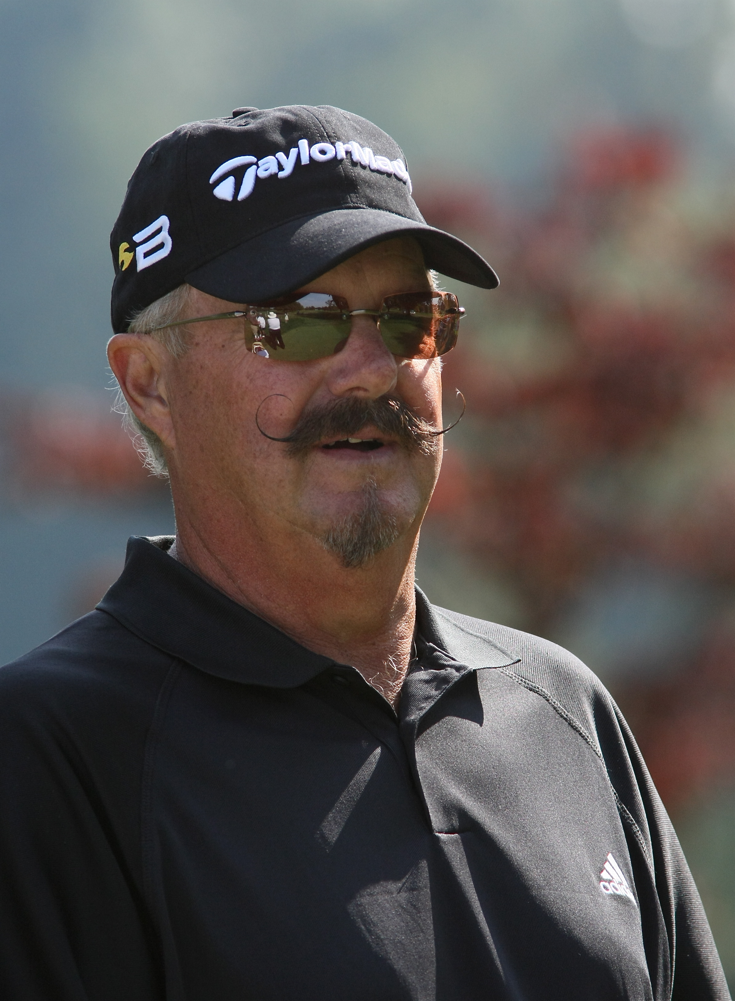 An image of golfer Gary McCord on the Senior Circuit in 2008.